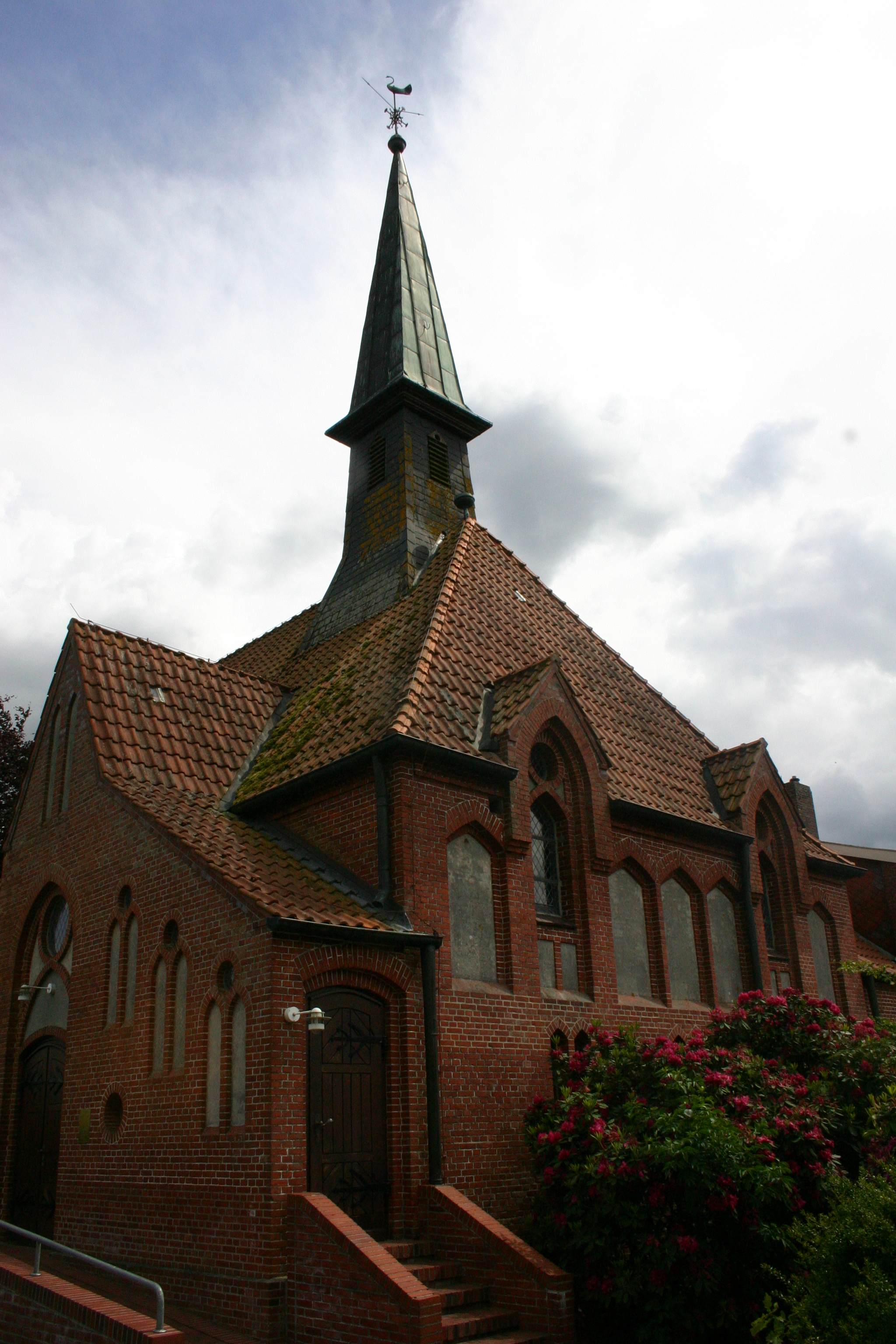 Historic Church of the Cross in Marcardsmoor, district of Aurich, East Frisia, Germany